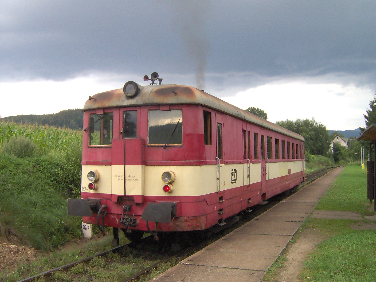 Diesel multiple unit 831.182, Lipová-lázně zastávka, Czech Republic